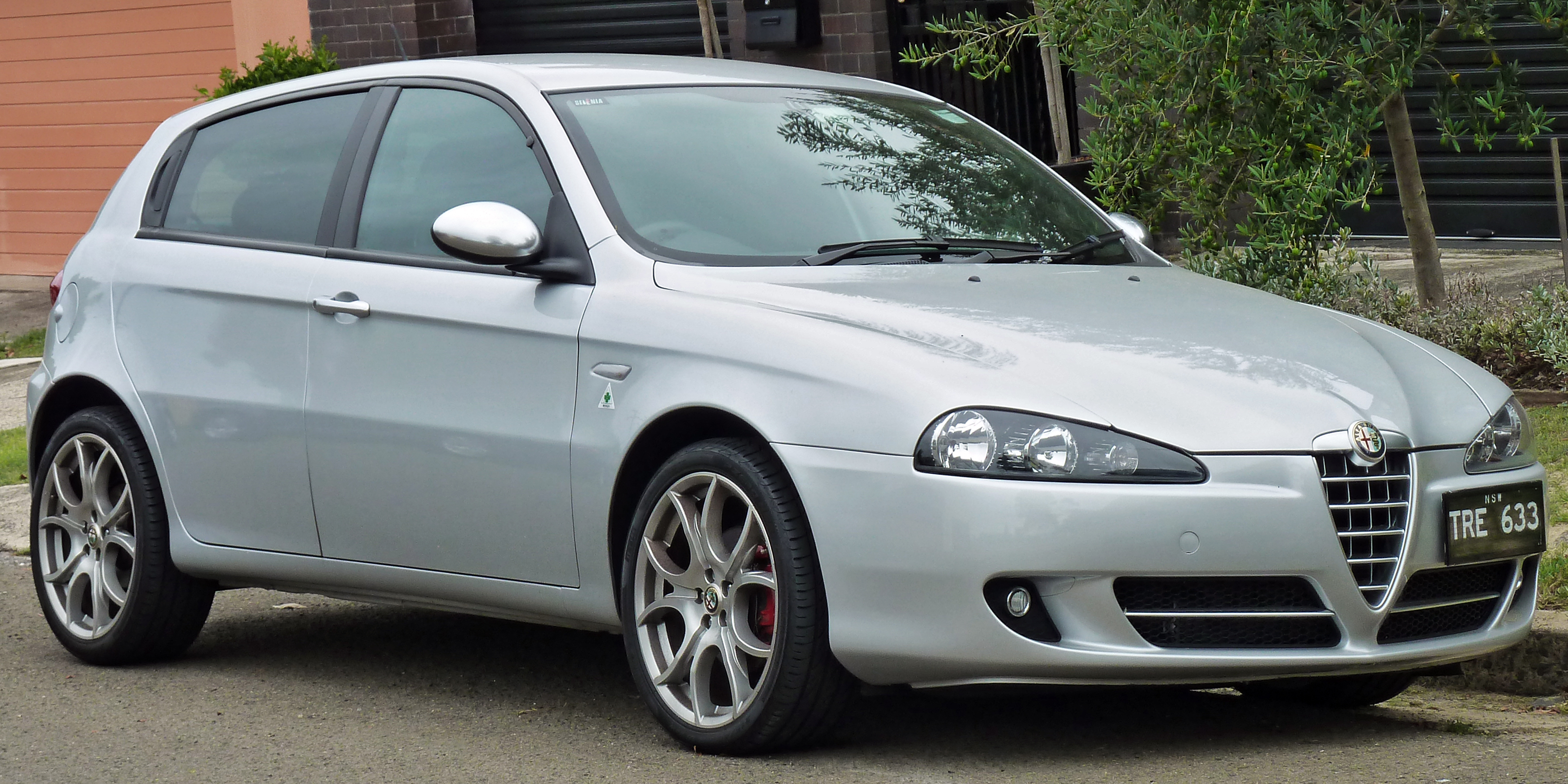 2008–2009 Alfa Romeo 147 JTD Monza 5-door hatchback. Photographed in Bellevue Hill, New South Wales, Australia.